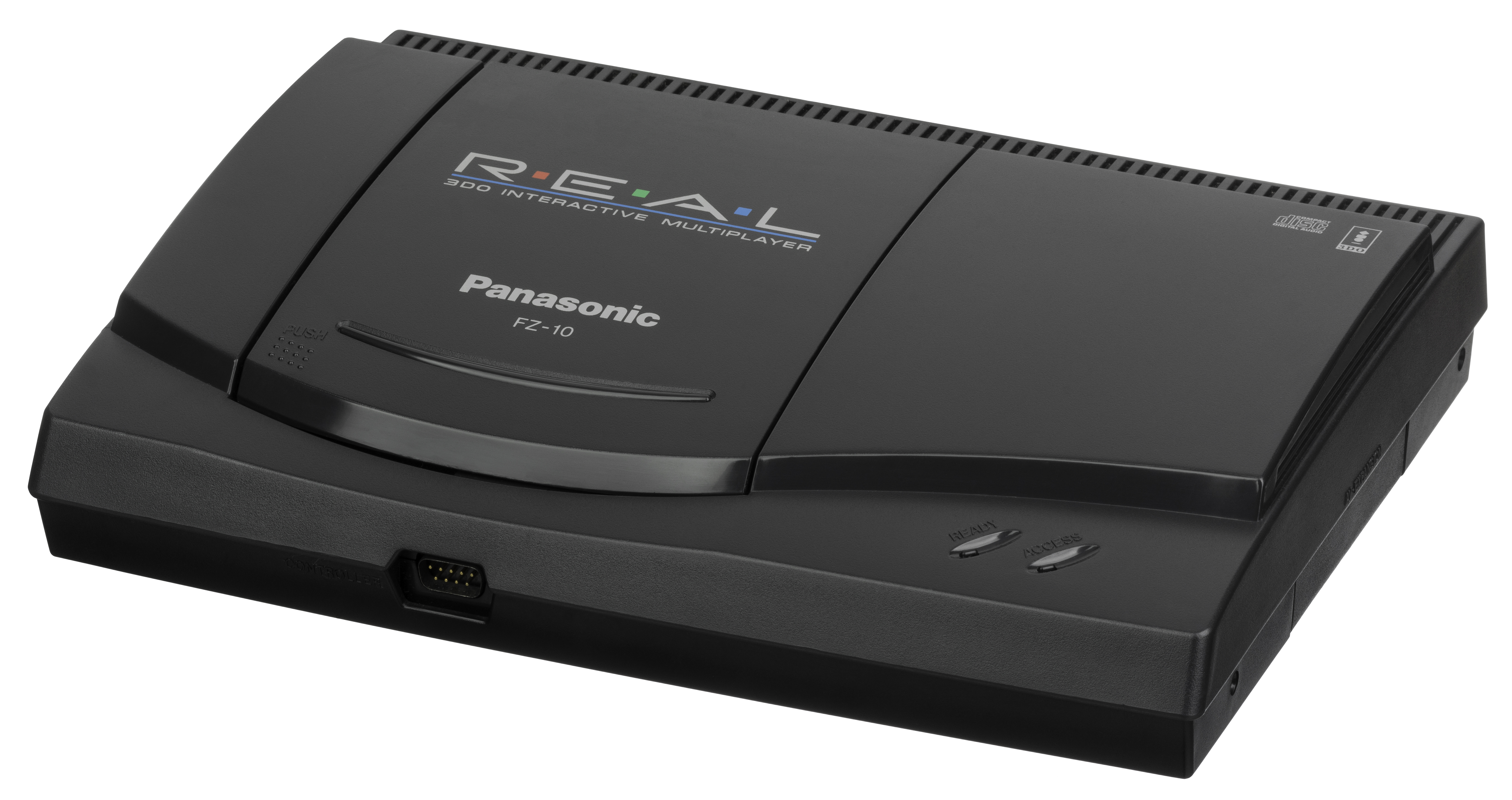 The 3DO FZ-10 video game console. This is the second 3DO model released by Panasonic, following the FZ-1.